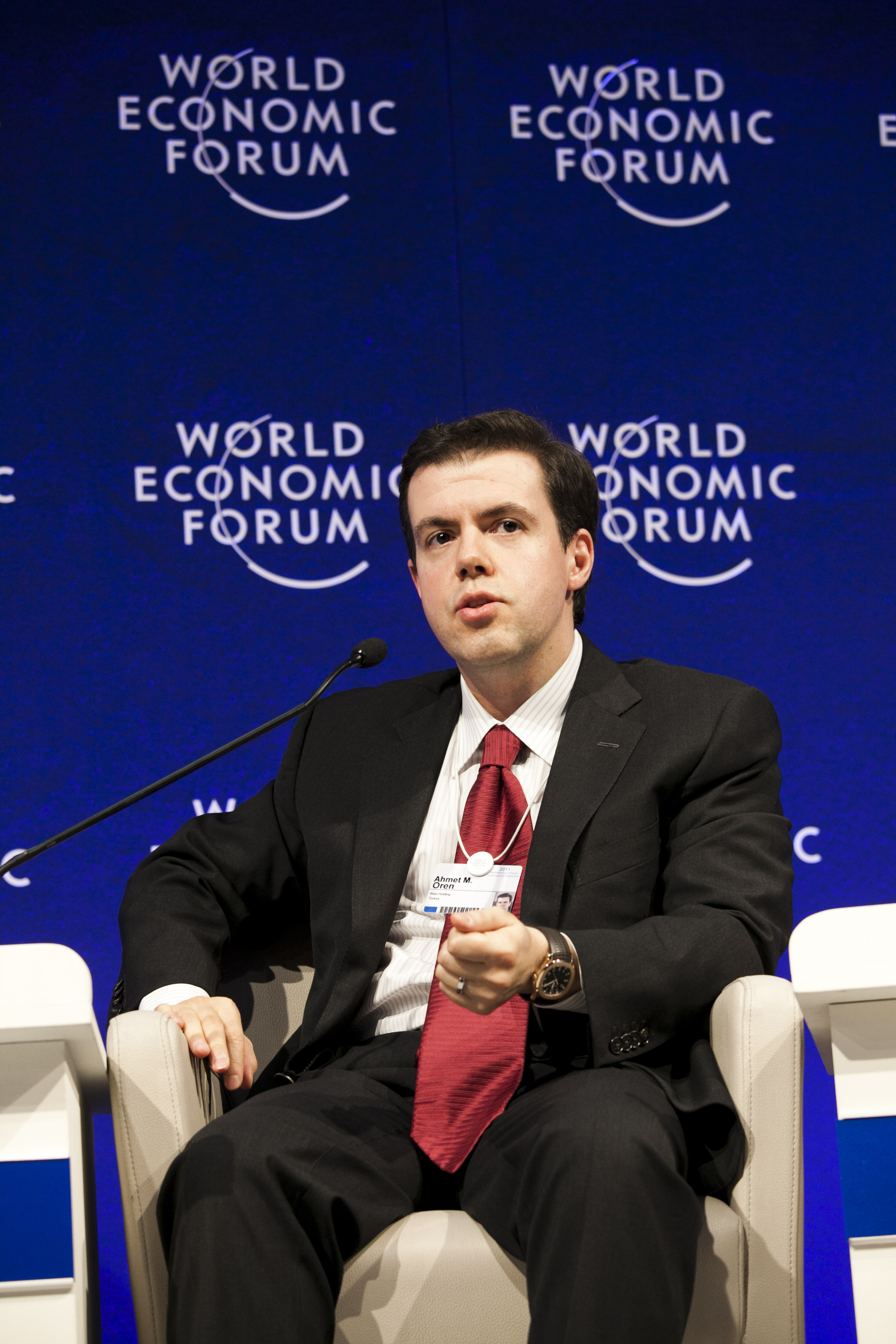 VIENNA/AUSTRIA, 8JUN11 - Ahmet M. Oren - Chief Executive Officer Ihlas Holding SA Turkey at the World Economic Forum on Europe and Central Asia held in Vienna, Austria, June 8, 2011. Copyright World Economic Forum/Photo by Heinz Tesarek Removed HTML tags (